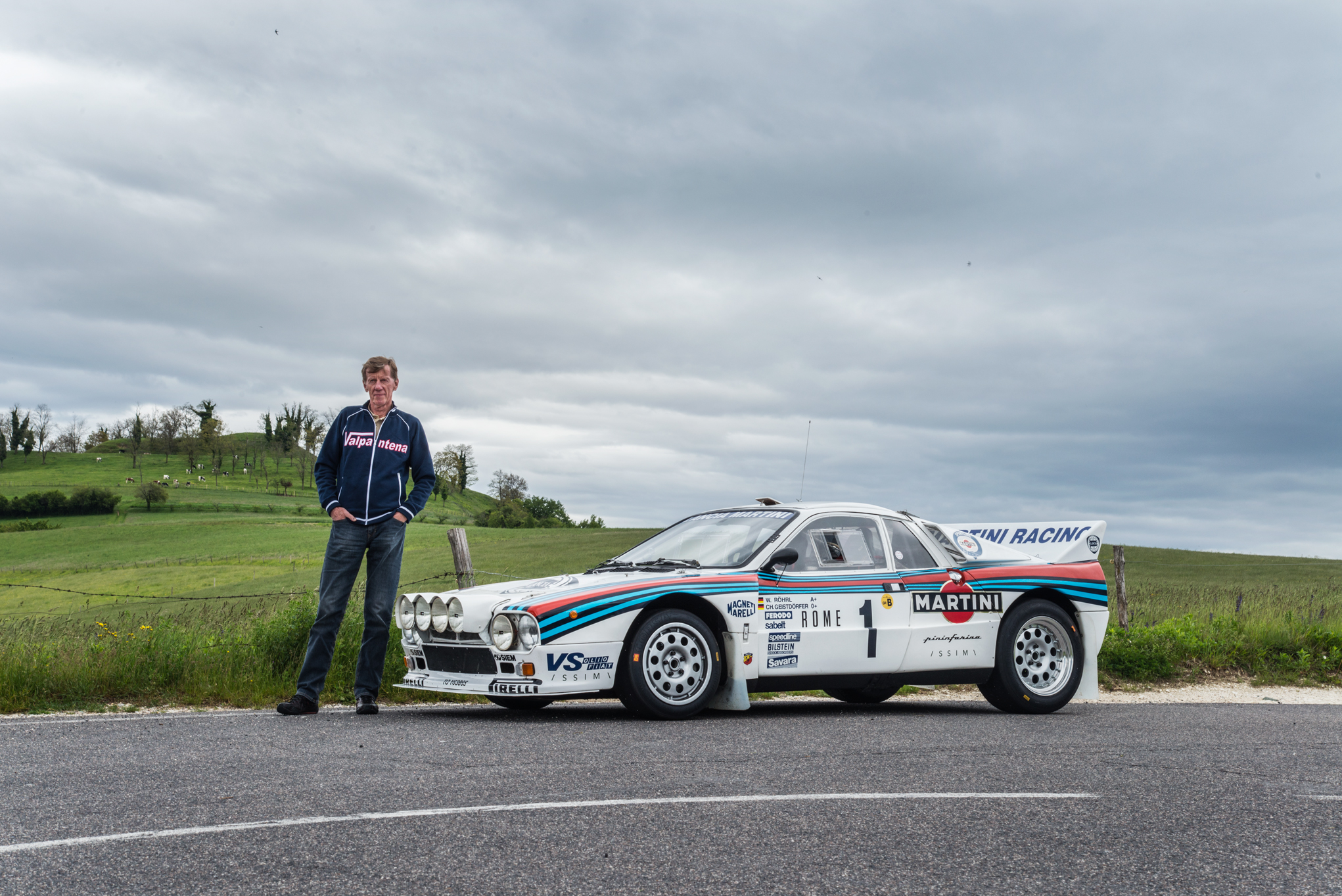 Walter Rohrl and the Lancia 037 Chassis 305